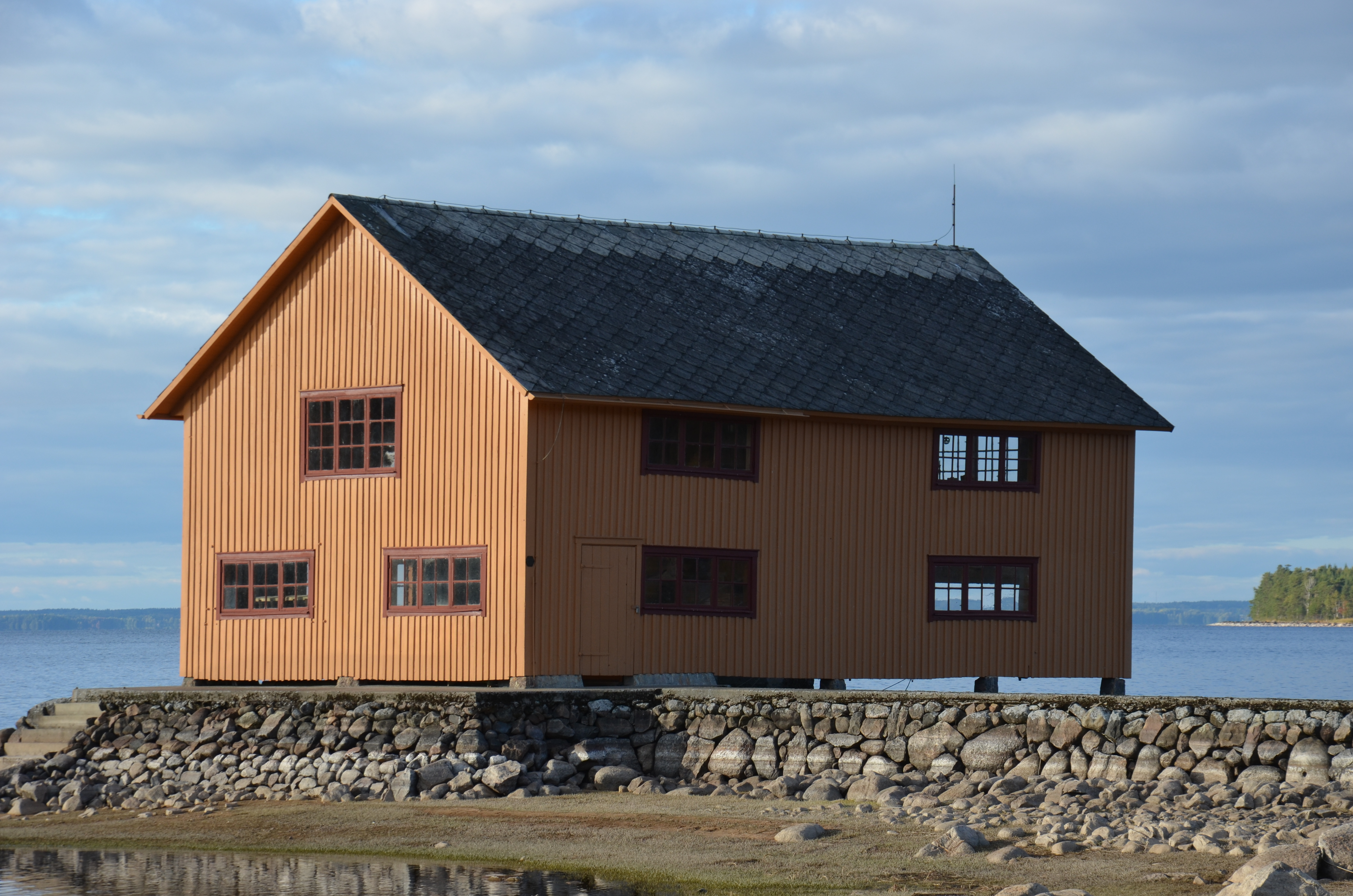 Boathouse at Skagersholm manor, Laxå municipality, Sweden